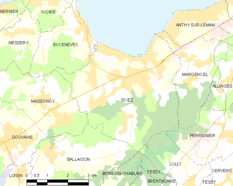 Map of French municipality Sciez